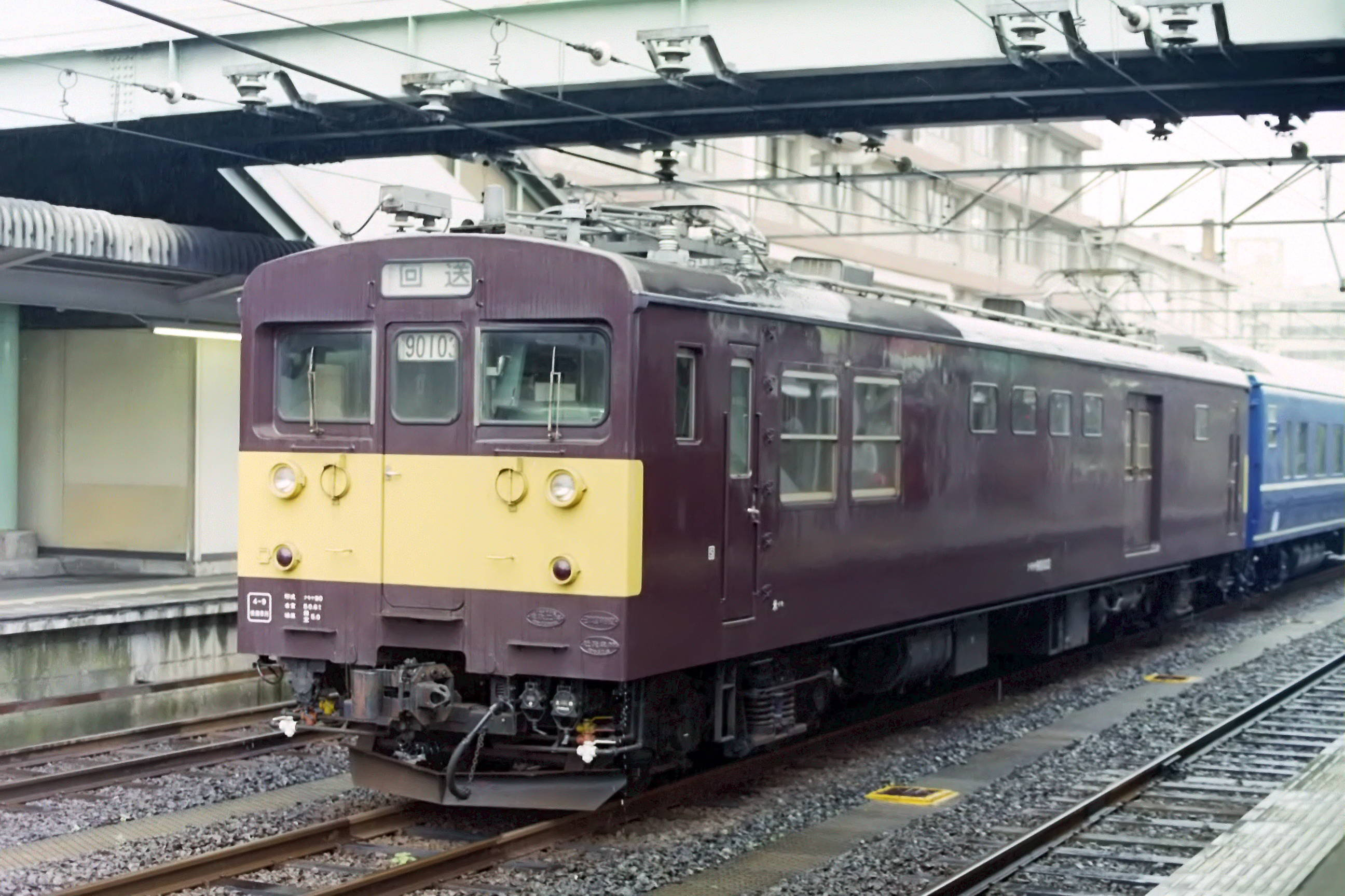 JNR Type Kumoya 90 No.103 Electric Baggage Car at Yonago Station